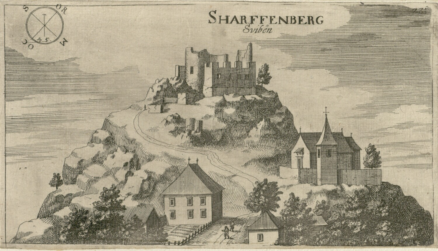 Svibno with castle